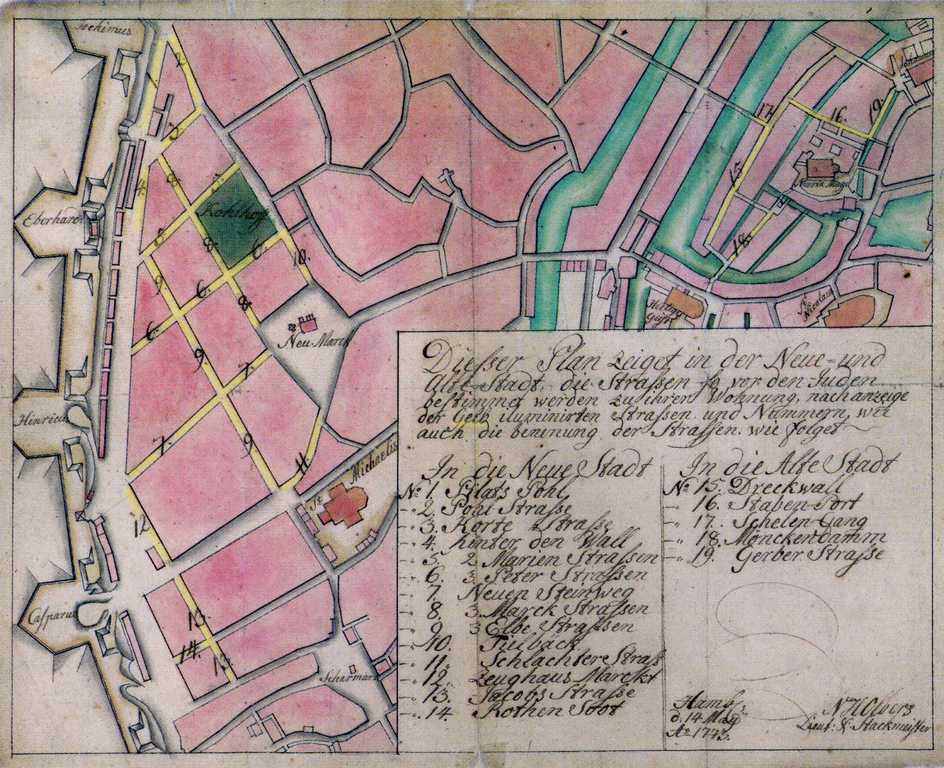 Map (1775) of streets in the New Town section of Hamburg where Jews were required to reside.